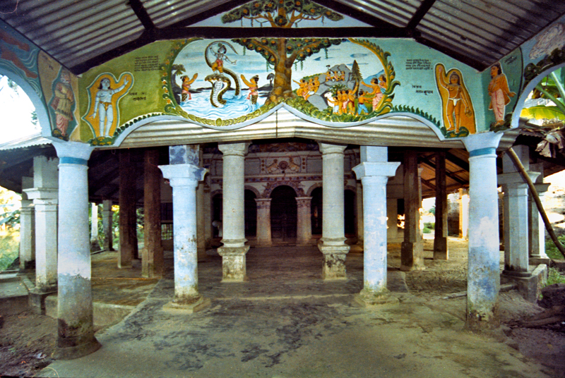 Kamalabari Satra in Majuli Island,Assam